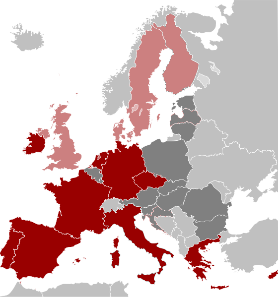 Based on Bastin's previous map.